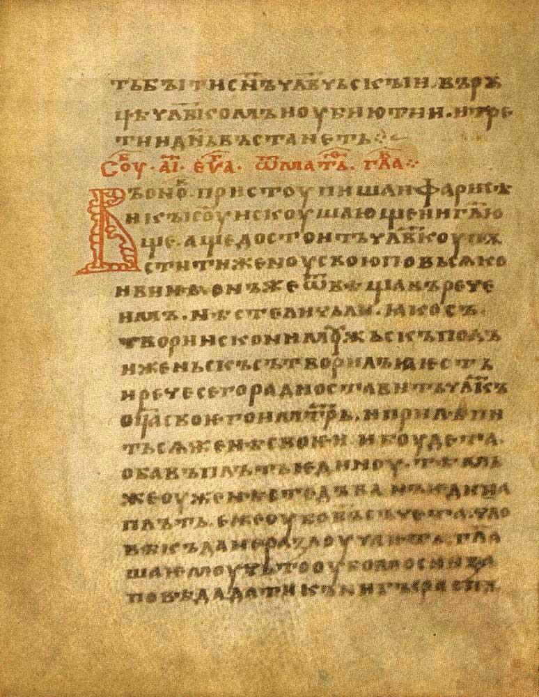 Archangel Gospel